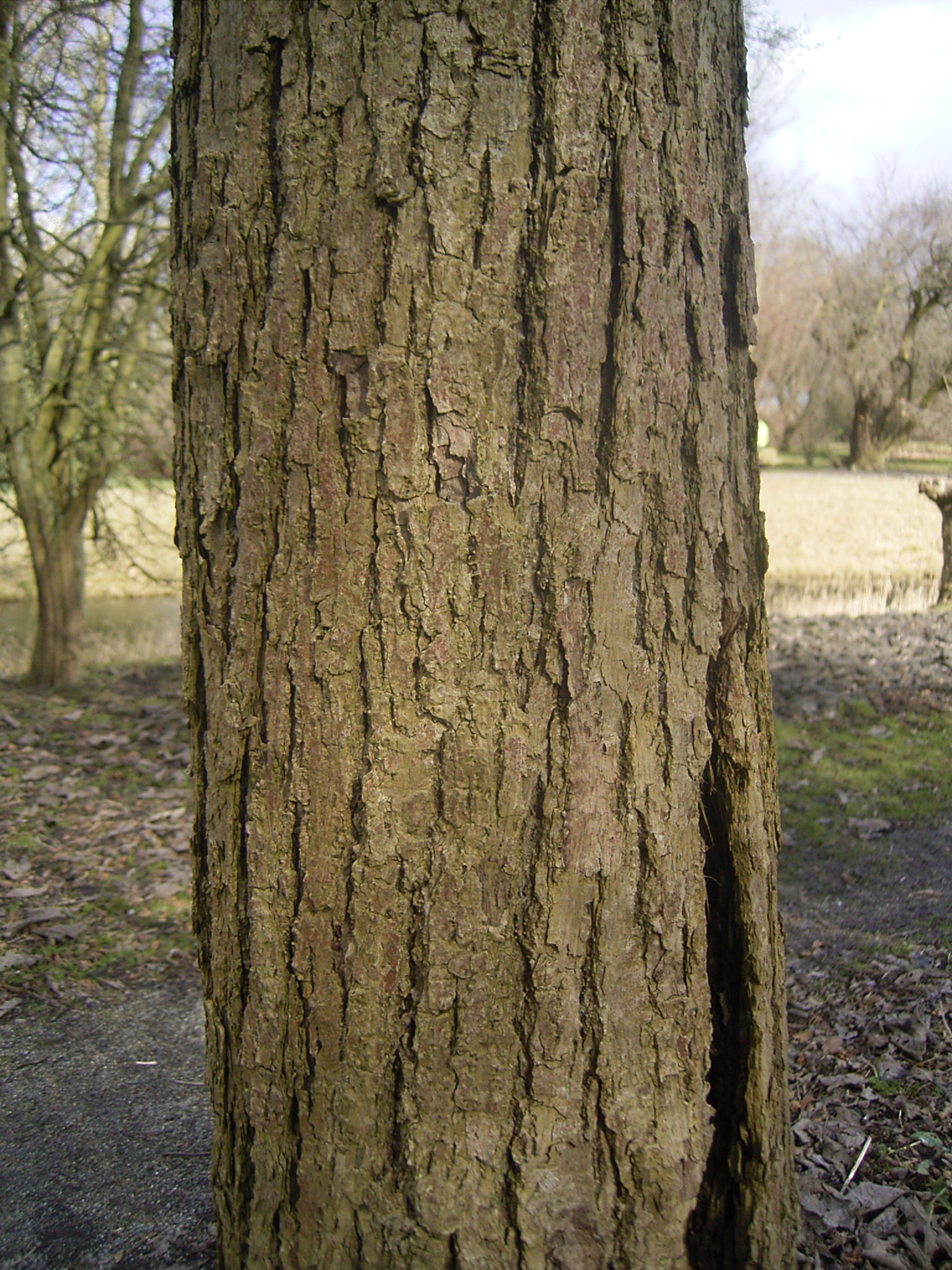 Deze foto toont de schors van populus lasiocarpa. Ik nam de foto op 2 maart 2006 in het arboretum heempark in Delft. This pic shows the bark of populus lasiocarpa.